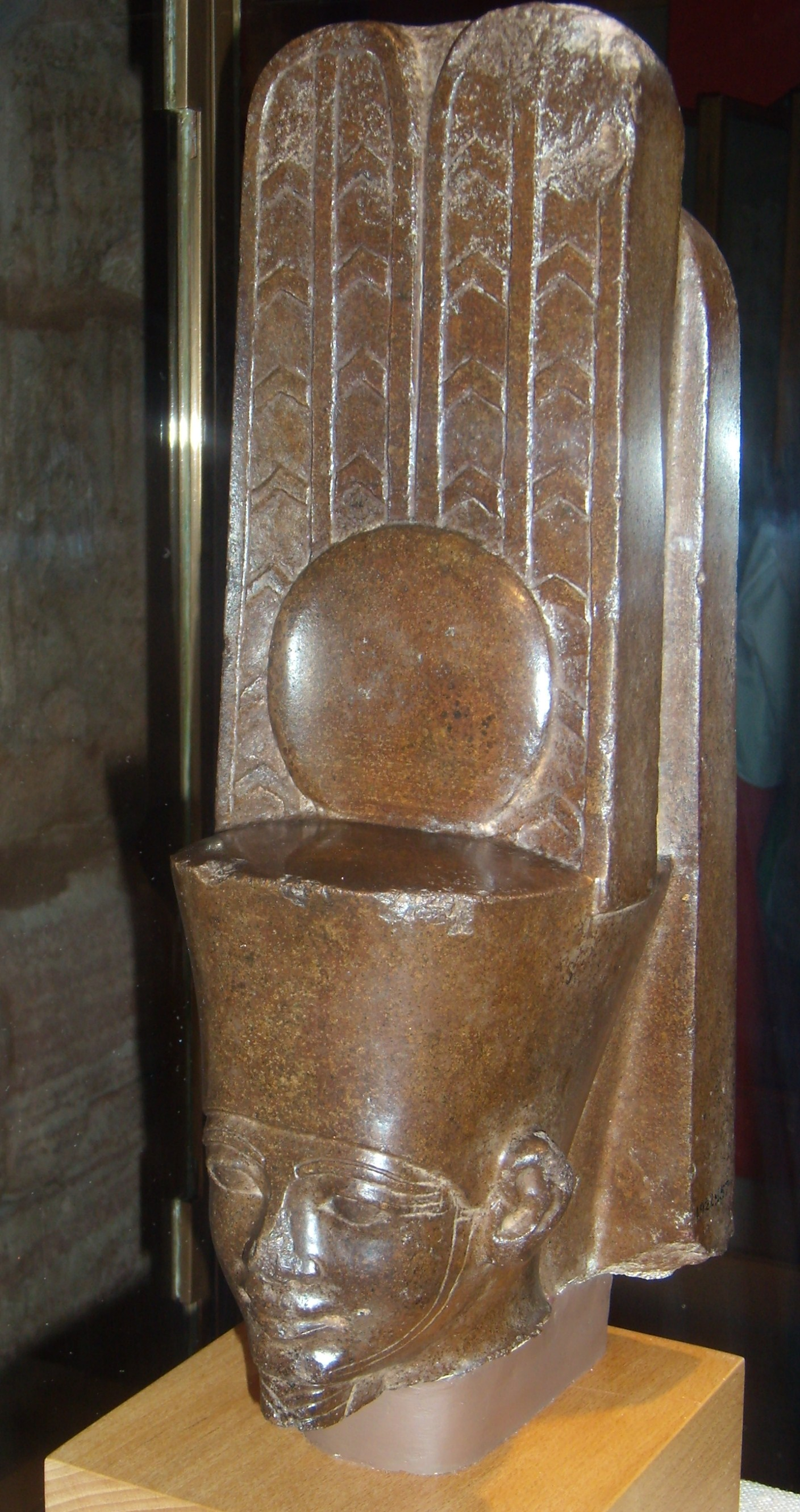 Head with the name of the Nubian King Tantamani, the last king of the Kushite 25th dynasty. From the Oxford, Ashmolean Museum